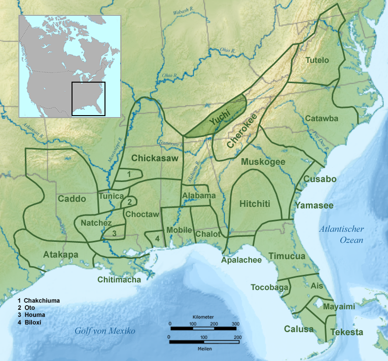 Tribal territory of Yuchi during sixteenth century